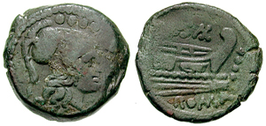 Roman republic [SAX]. Anonymous, perhaps a Clovius Saxula. 169-158 BC. Æ Triens (8.64 g). Helmeted head of Minerva right, four pellets Prow right, SAX above, ROMA below, four pellets before